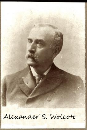 Alexander S. Wolcott (1804-1844), American dentist and inventor of the Daguerreotype mirror camera inventor.